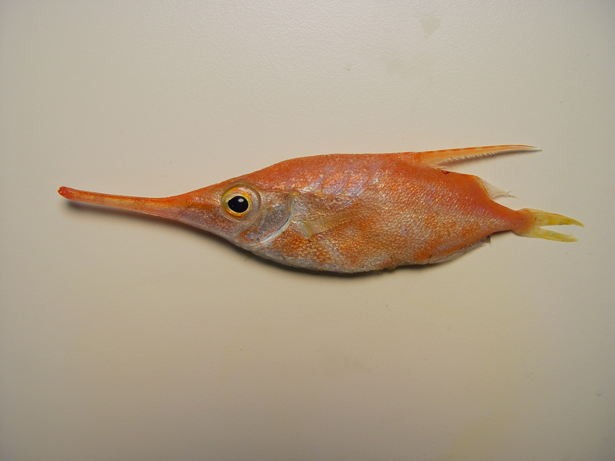 Macroramphosus gracilis from the Gulf of Mexico